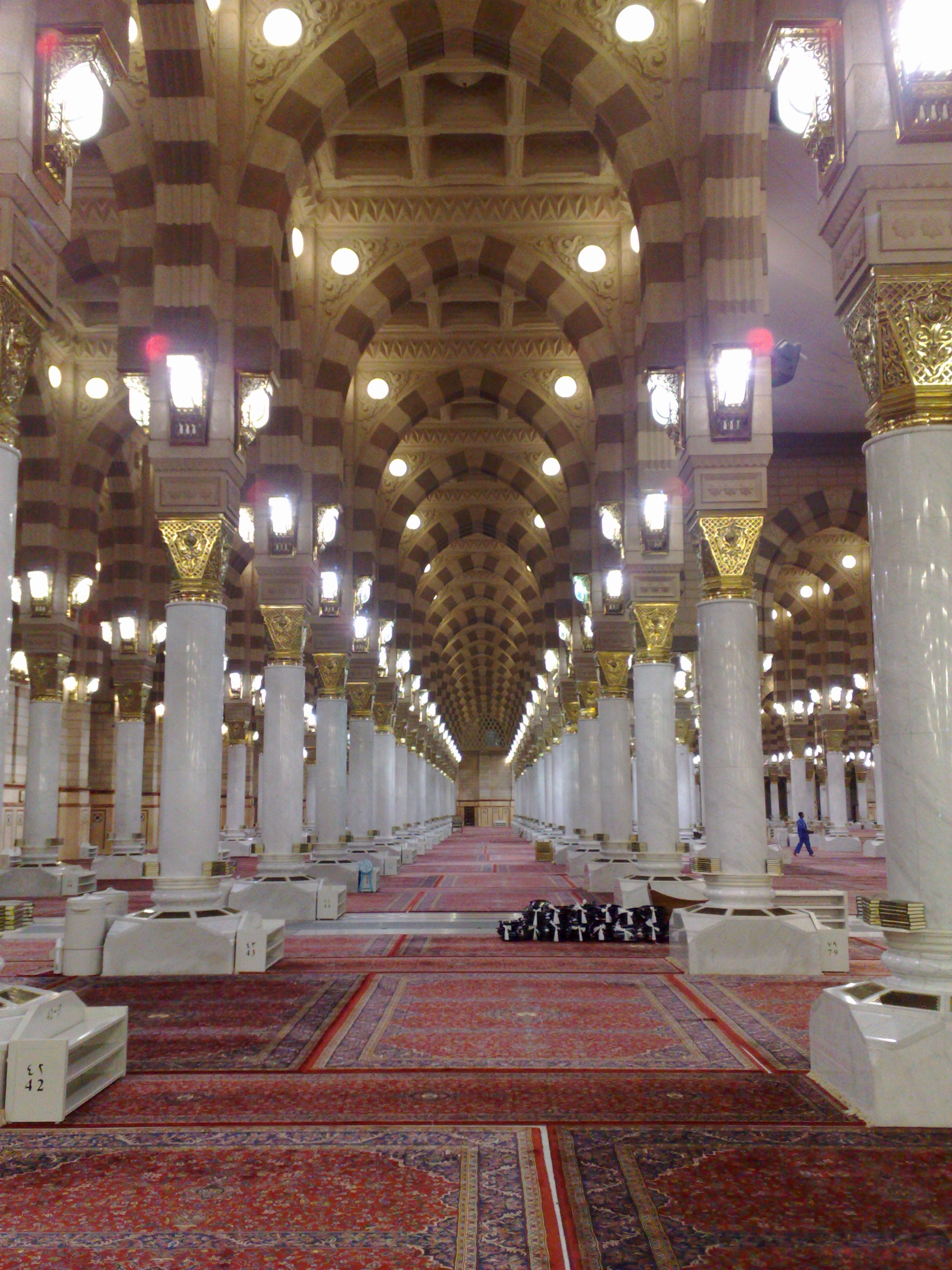 Inside view of al-Masjid al-Nabawi